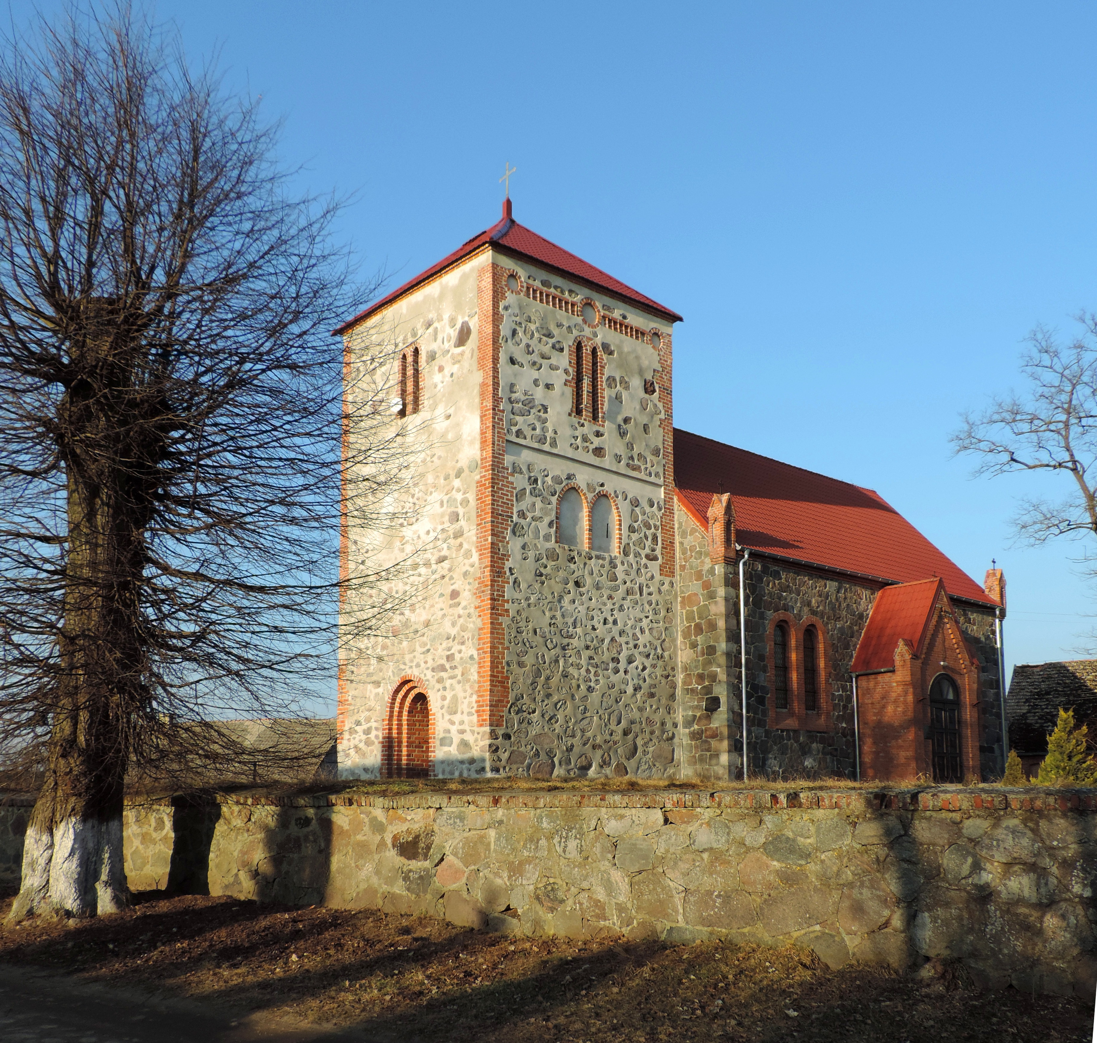 Church of St. Joseph in Sokoliniec